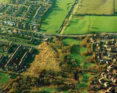 Aerial photo of the Savick Brook